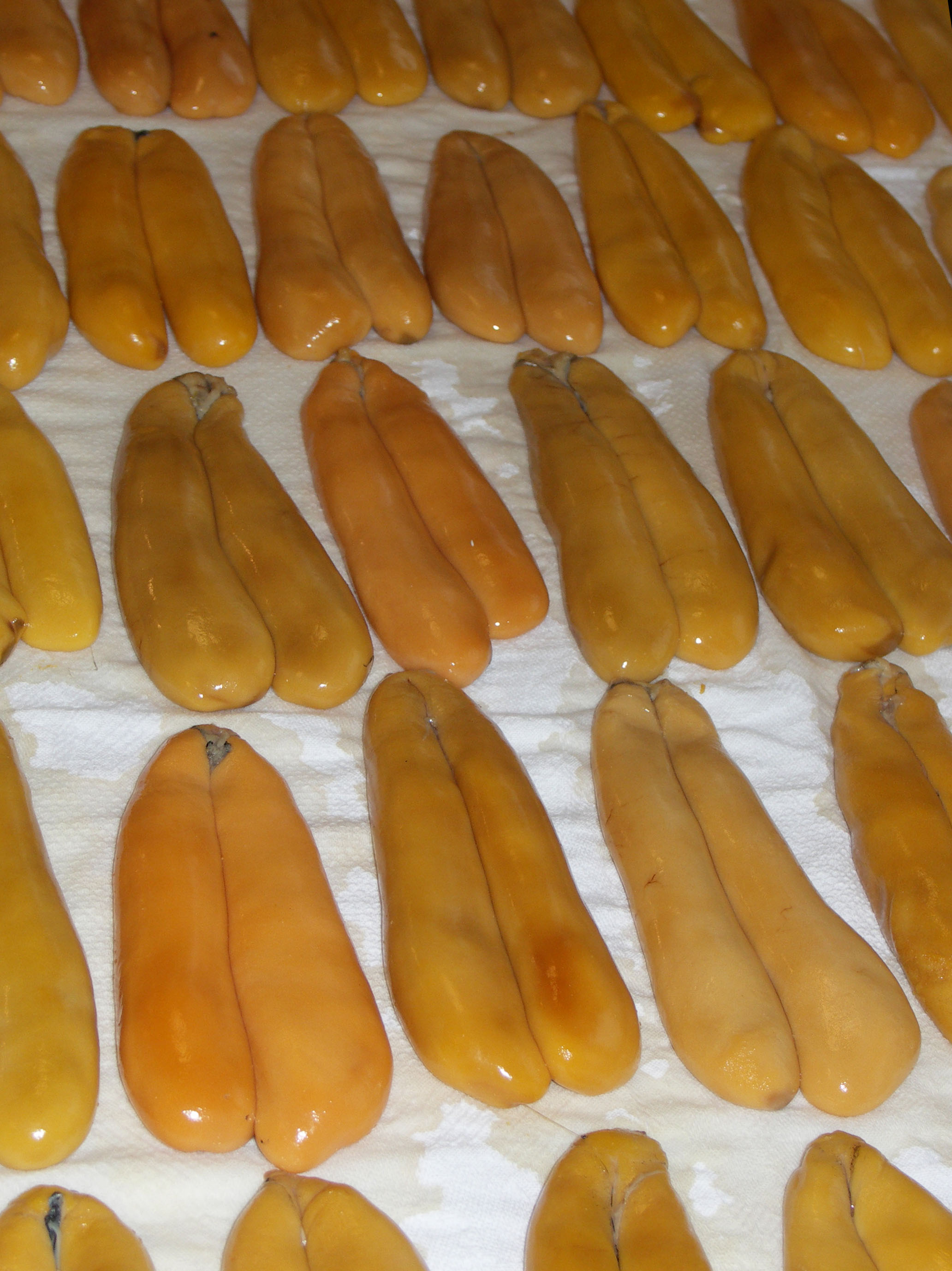 Fresh Karasumi Roe getting dried